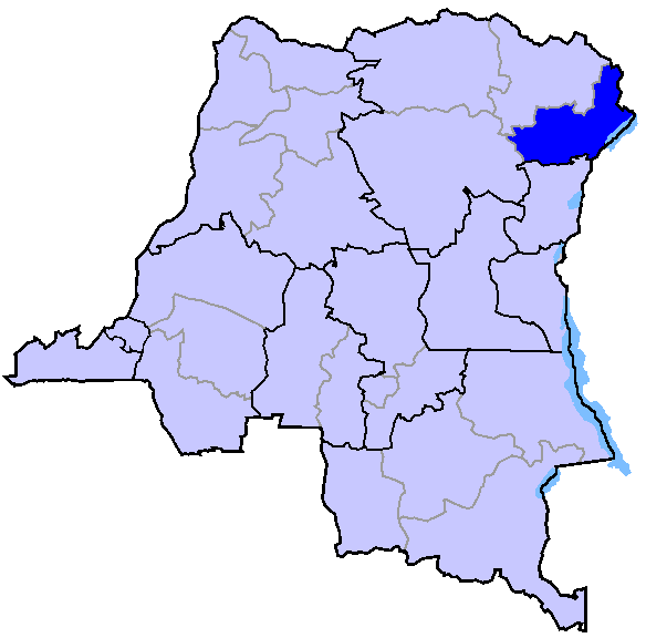 Map of the Ituri region in the DRC (Democratic Republic of the Congo). This is based on Image:Provinces de la République démocratique du Congo - 2005.svg, but includes the colors of Image:DCongoEast.png.